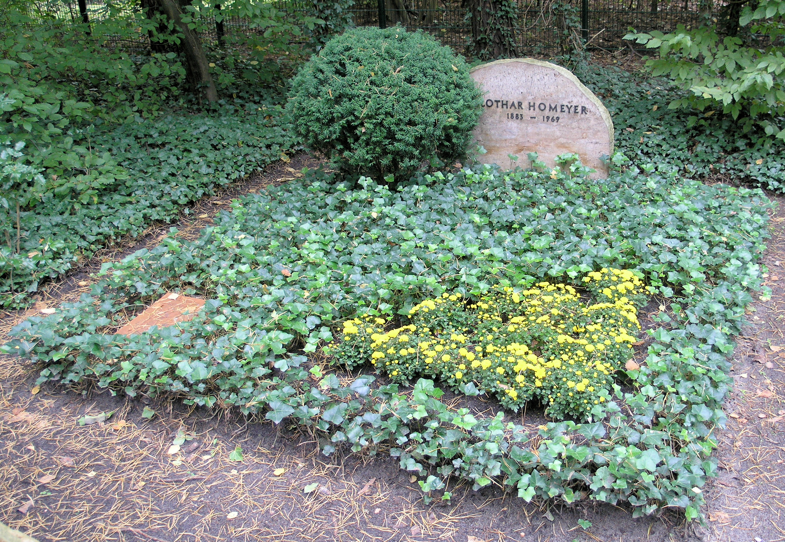 "Ehrengrab" (grave of honor), Lothar Homeyer, Potsdamer Chaussee 75, Berlin-Nikolassee, Germany Koordinate:52°25′23″N 13°12′38″E / 52.42306°N 13.21056°E